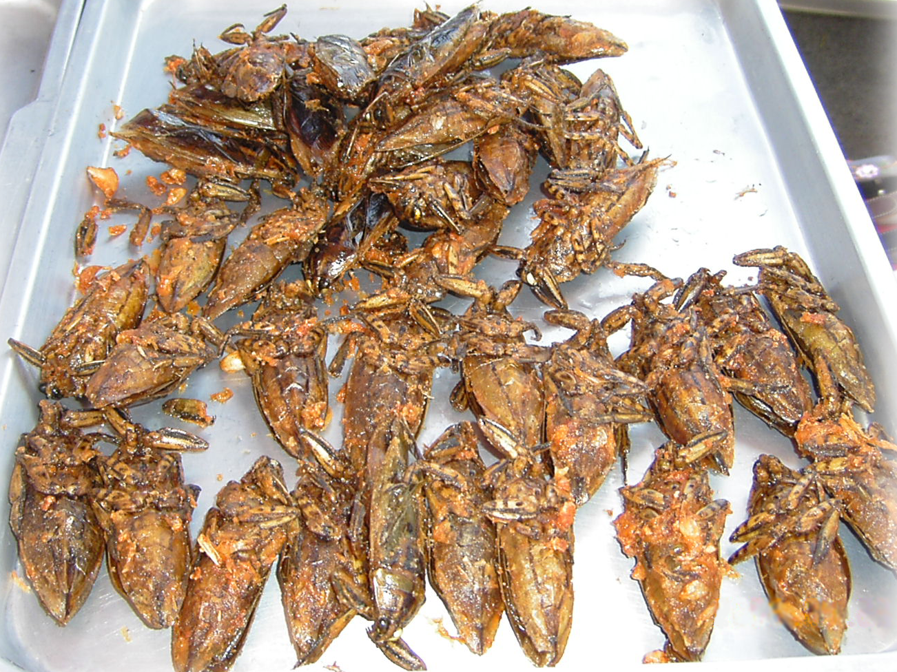 Deep fried giant water bugs on a plate; Deep-fried giant water bugs (Lethocerus indicus) are often seen at local markets of Thailand.